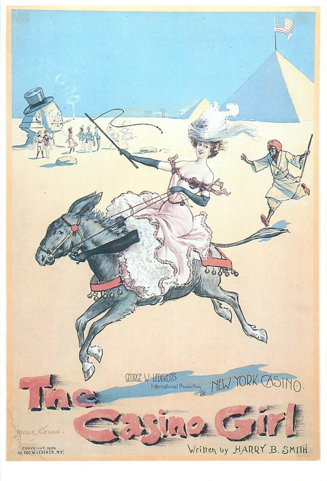 Poster for the production of The Casino Girl (1900)